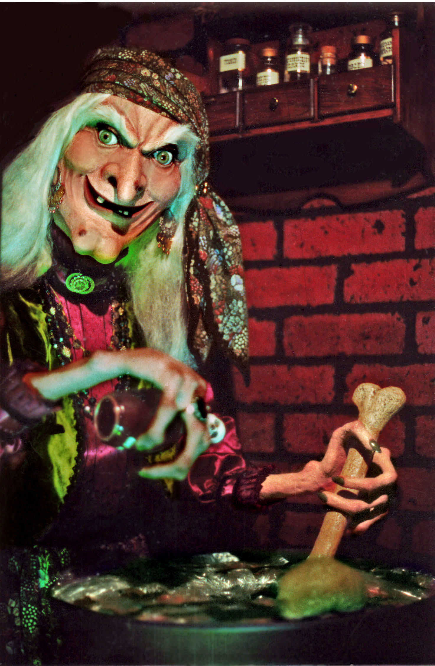 original creation, "Zenobia The Gypsy Witch", voice June Foray